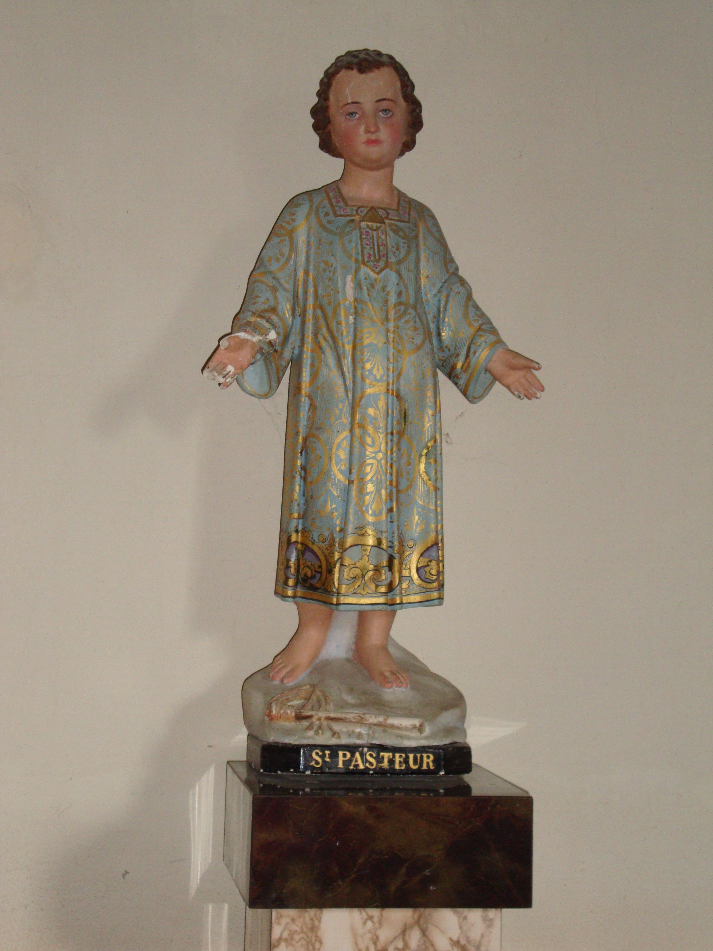 Lichos (Pyr-Atl, Fr) statue of Saint Pasteur.